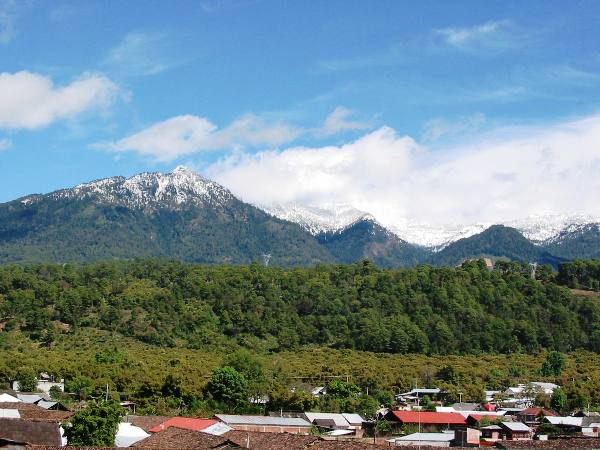 Pico de Tancítaro (Volcán Tancítaro) — located in the Municipality of Tancítaro, State of Michoacán. At 3,845 metres (12,615 ft) in elevation, it is the highest point in the state.